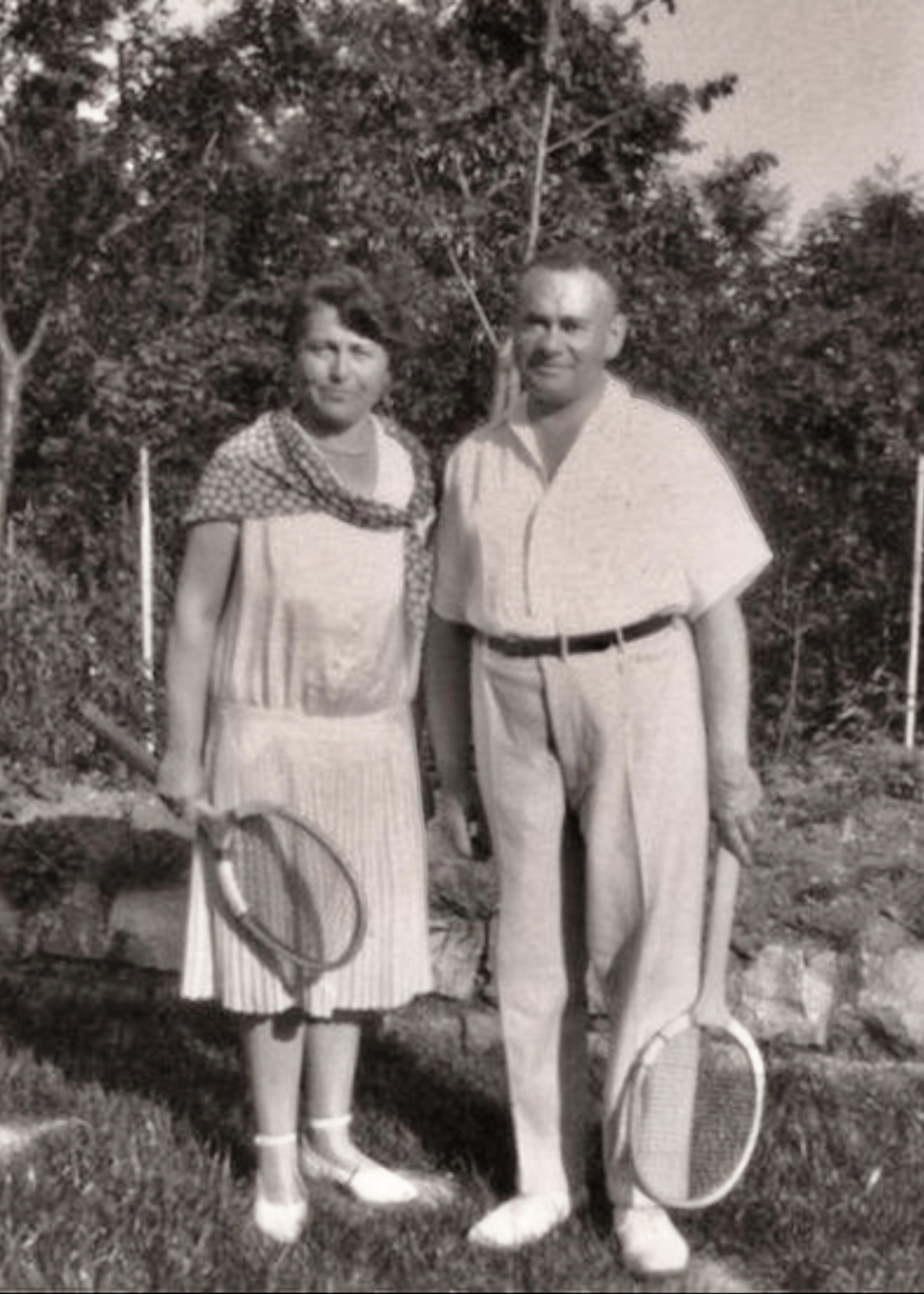 The Erfurt-based Thuringian entrepreneur, art collector and patron of the arts Alfred Hess (1879–1931) with his wife Thekla (1884–1968), nee Pauson, who was born in Lichtenfels, Upper Franconia, Bavaria, Germany.